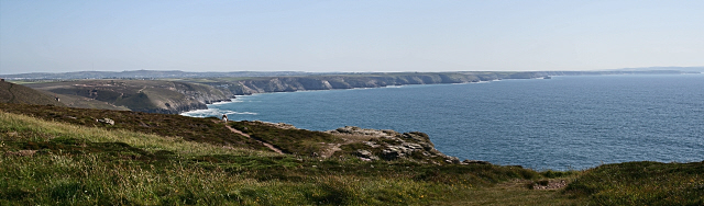 North coast of Cornwall Near St Agnes Head to Godrevy.